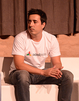 The Next Web Barcelona 2013